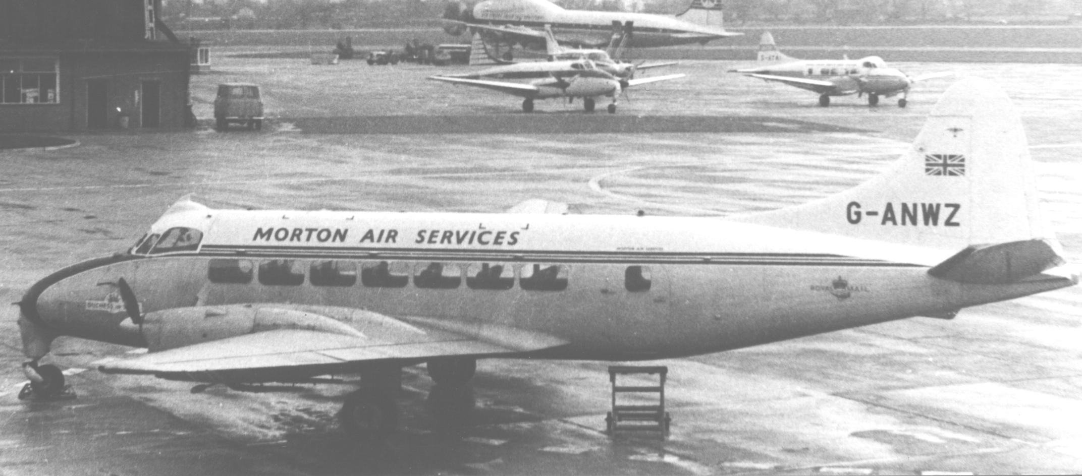 de Havilland DH.114 Heron 1B (fixed undercarriage) of Morton Air Services (UK)